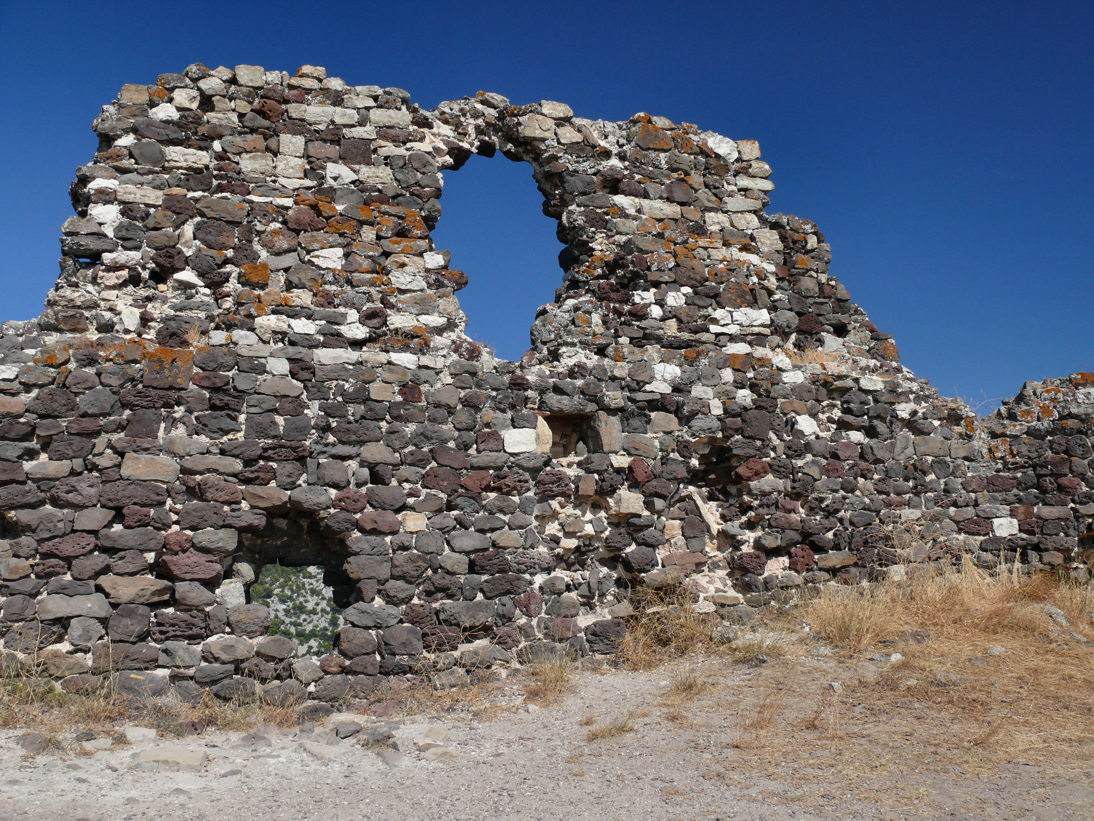 The wall of the castle of Evenos, 11th century CE. Taken at Evenos, Var, Provence-Alpes-Côte d’Azur, France, August 2009.